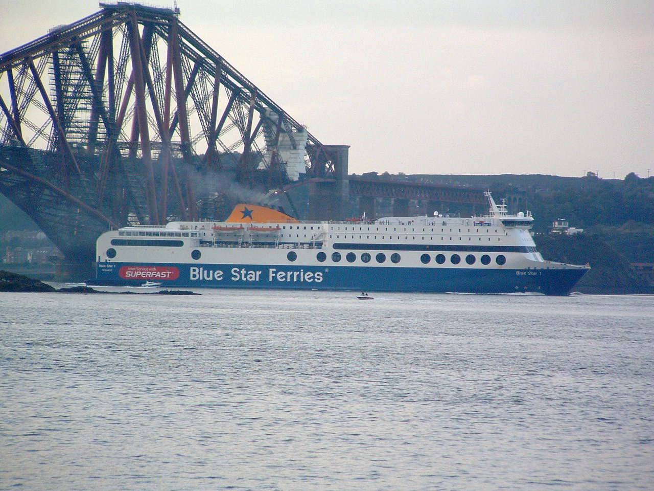 Vehicle ferry Blue Star 1, SWET, IMO 9197105, passes under the Forth Bridge en route for Zeebrugge with the overnight service from Rosyth.